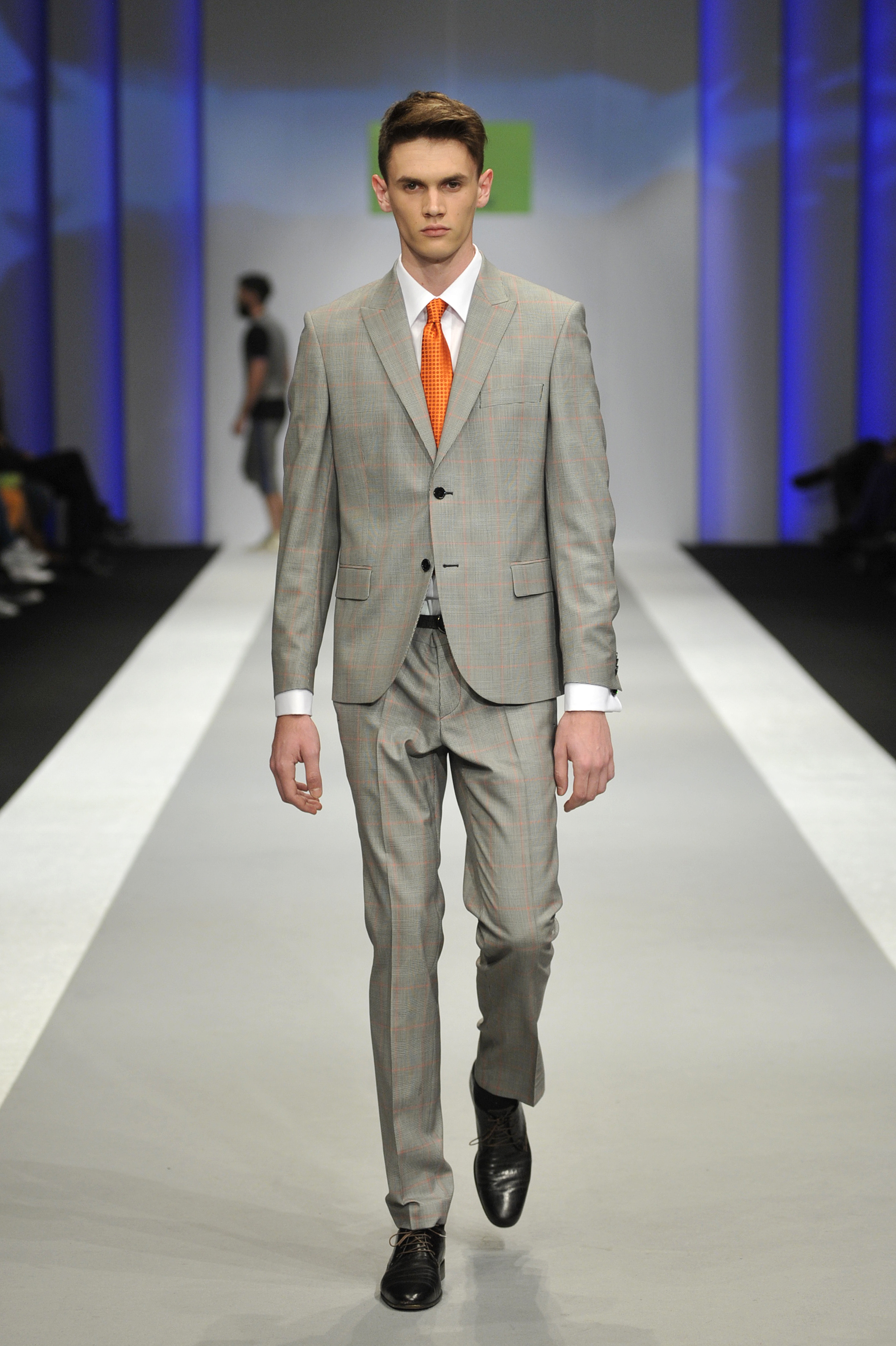 Model wearing Boris Banović